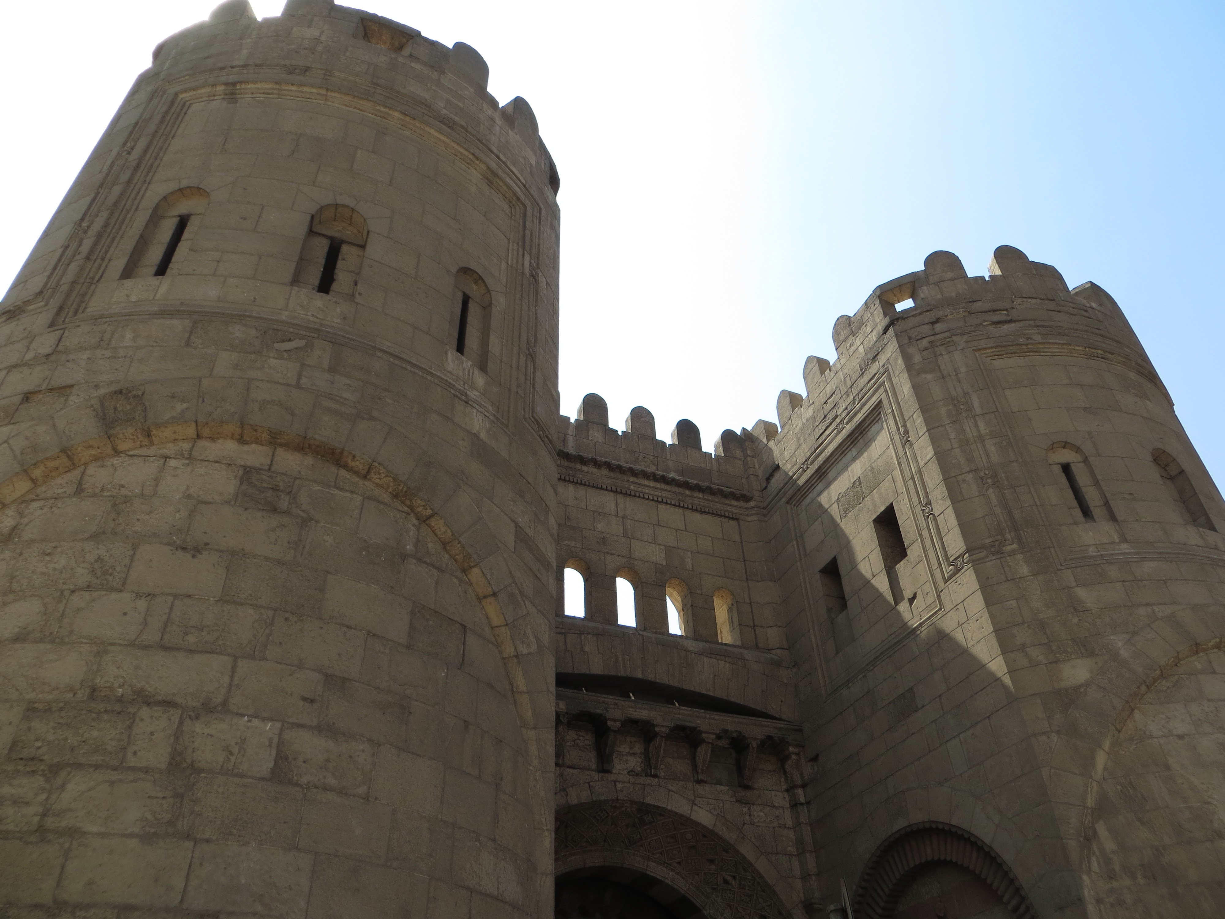 Bab al Futuh, Cairo